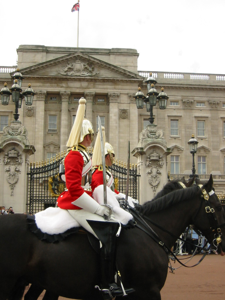 The Horse Guard, Changing of the Guard ceremony, Buckingham Palace, London